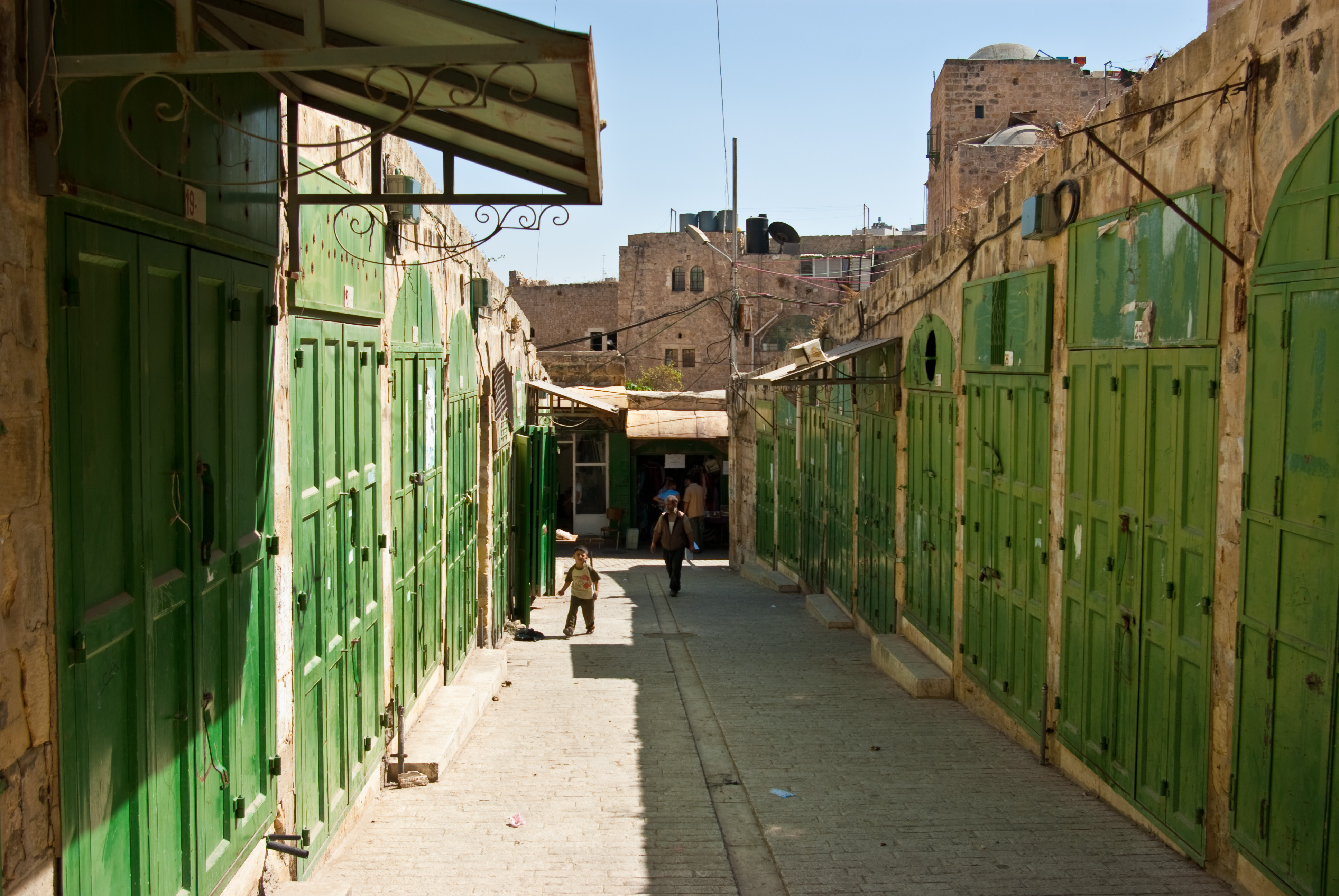 Hebron